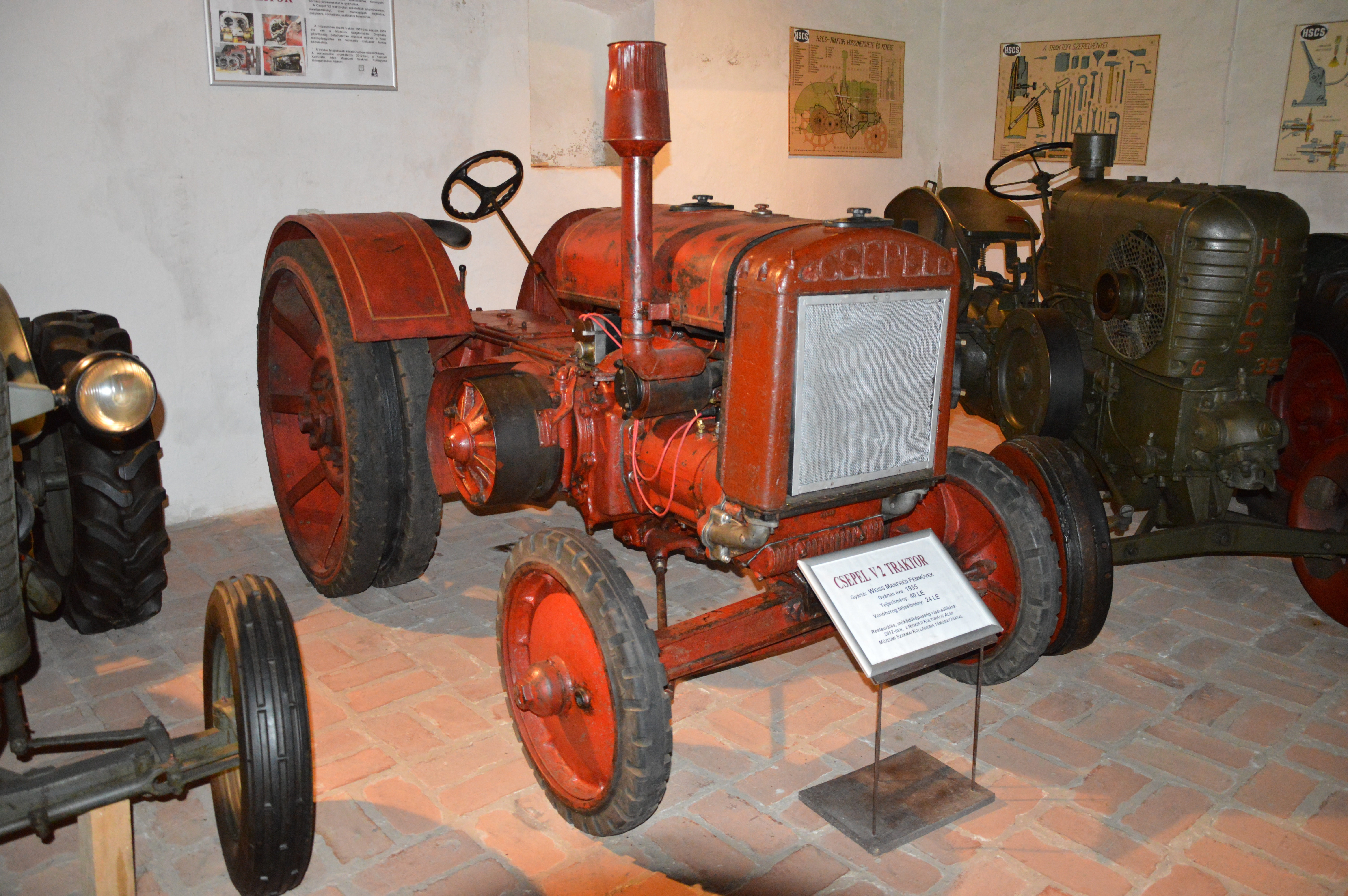 Csepel V2 tractor